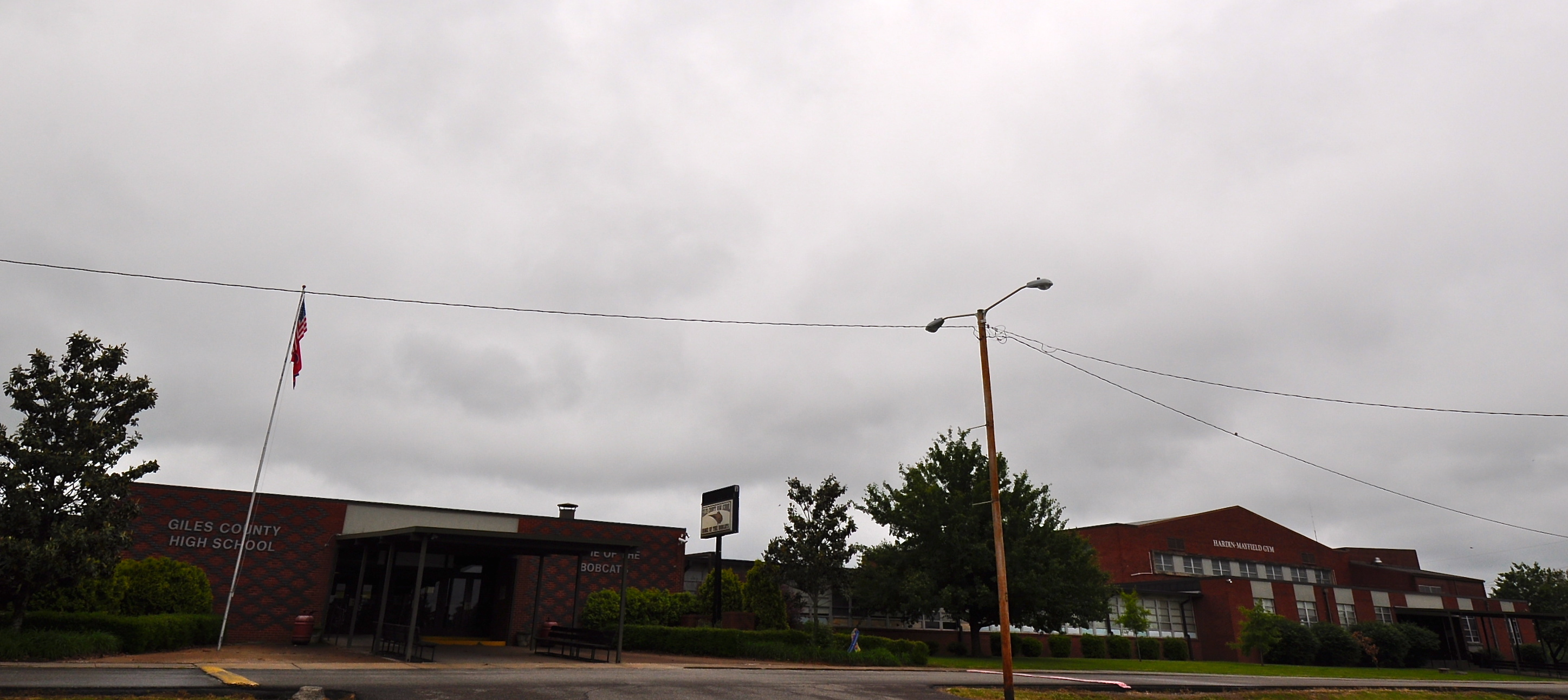 Located at Pulaksi, Giles County, Tennessee.